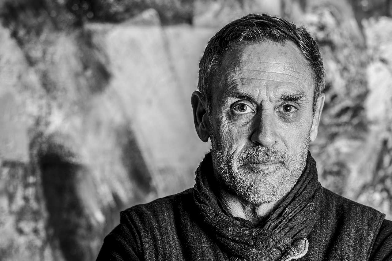 Tim Freccia in Hudson, NY 2017